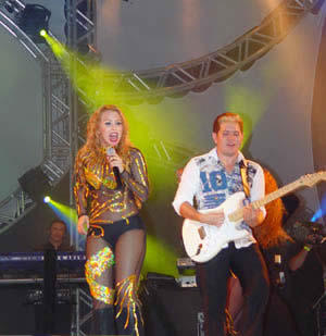 Gravação do DVD Banda Calypso na Amazônia em Manaus.